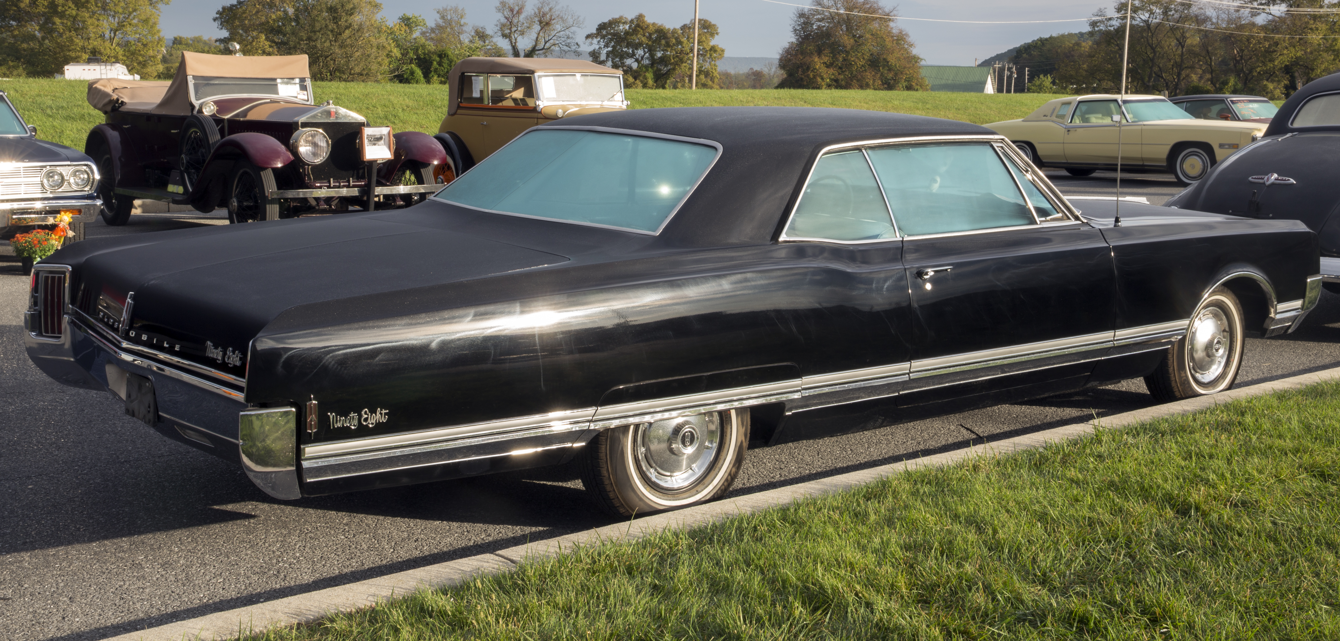 A 1963 Oldsmobile Ninety-Eight Holiday Sports Coupe offered for sale at Hershey 2019.